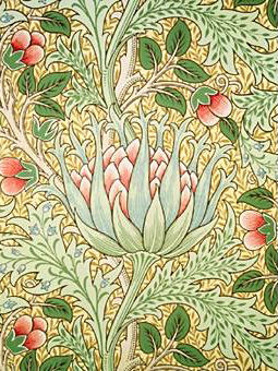 "Artichoke" wallpaper,designed by John henry Dearle for Morris & Co. Printed design pre-1900